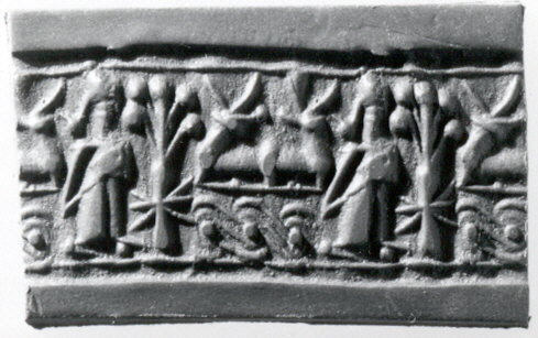 Mitanni; Cylinder seal; Faience-Cylinder Seals